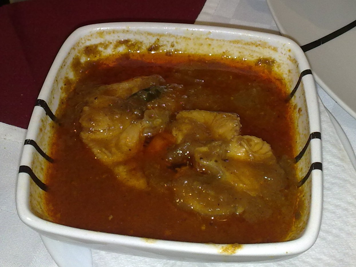 Fish ambotic, a dish from Goa.